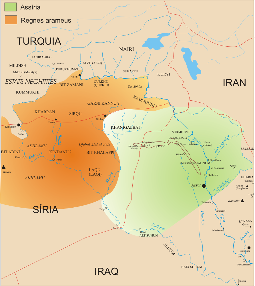 Assyria before 900 aC under Adadnirari II